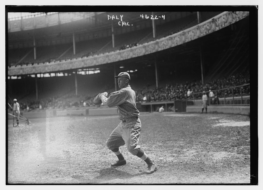 Tom D. Daly in 1918